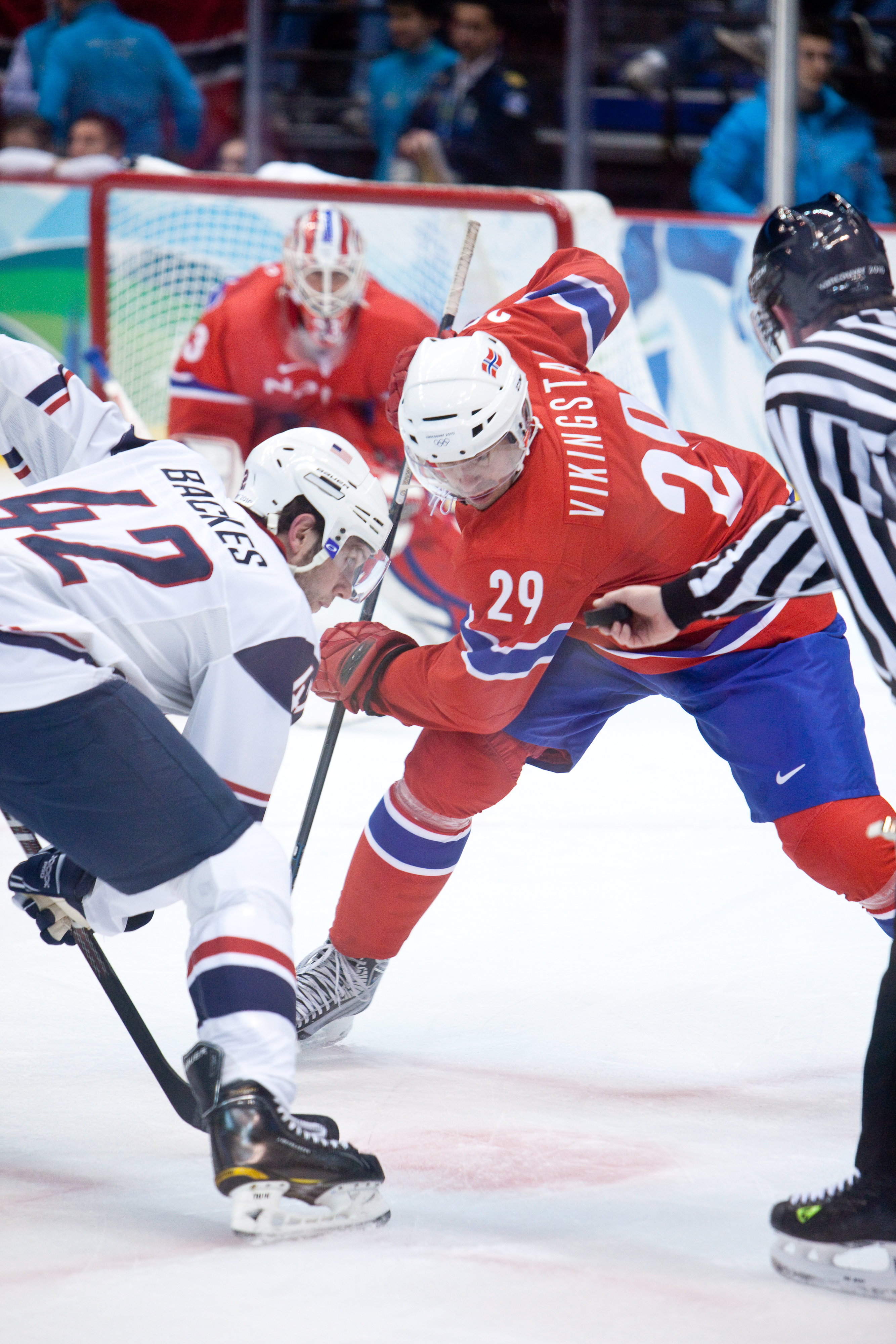 Tore Vikingstad of Norway and David Backes of the United States face off during the 2010 Winter Olympics